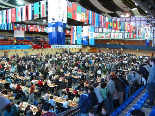 Chess Olympiad, Bled, Slovenia 2002. Photo Andrejj, october 2002.